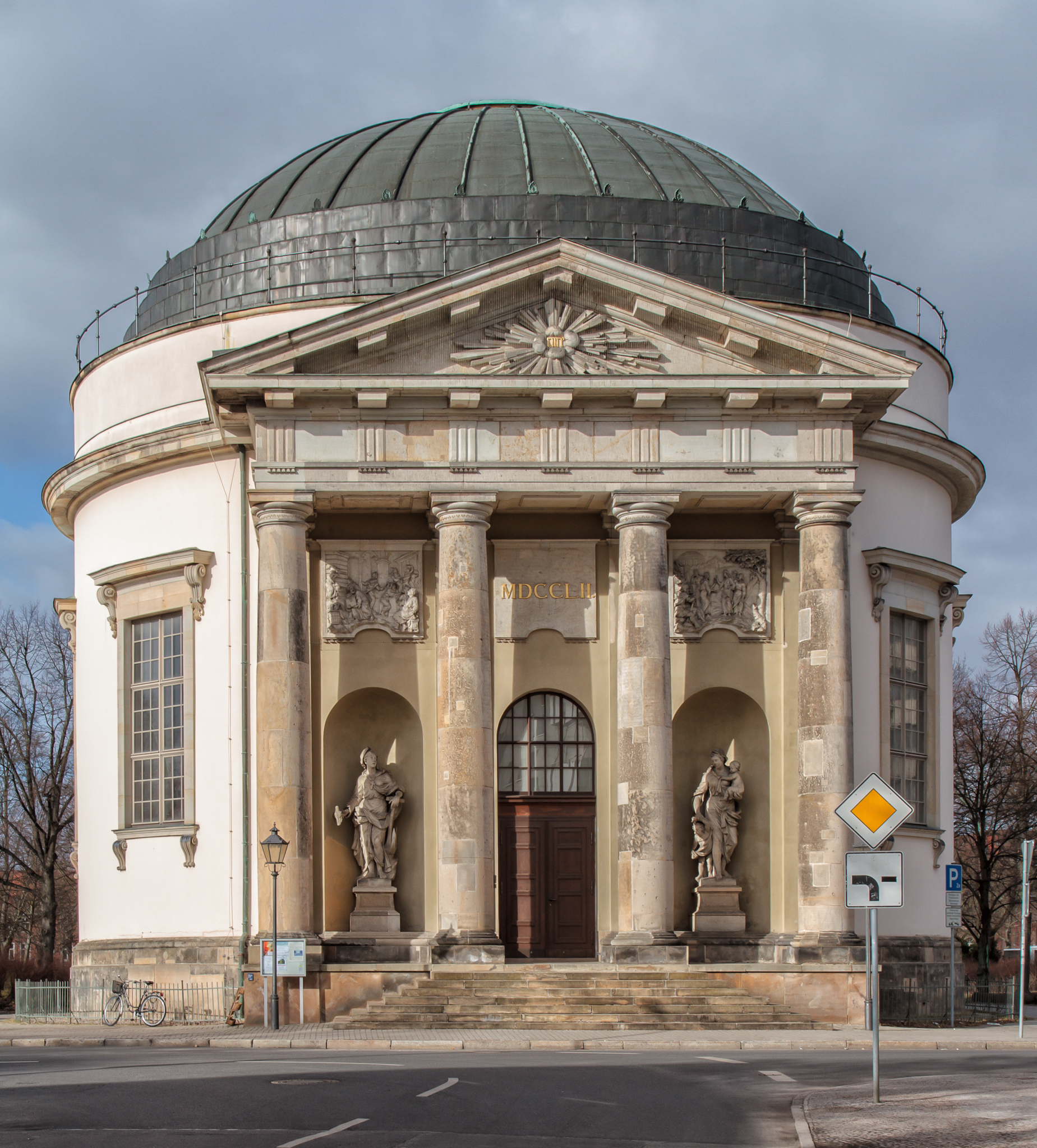 Potsdam - French church - 2013